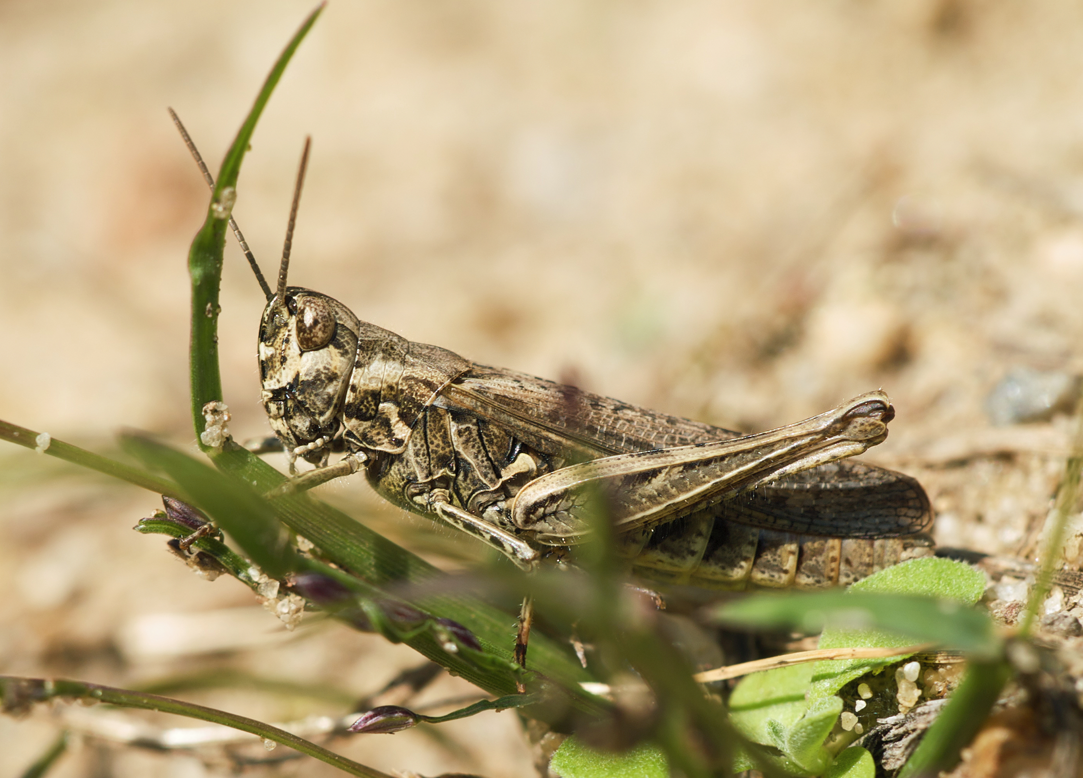 Female Common Field Grasshopper (Chorthippus brunneus), Chemnitz, Germany